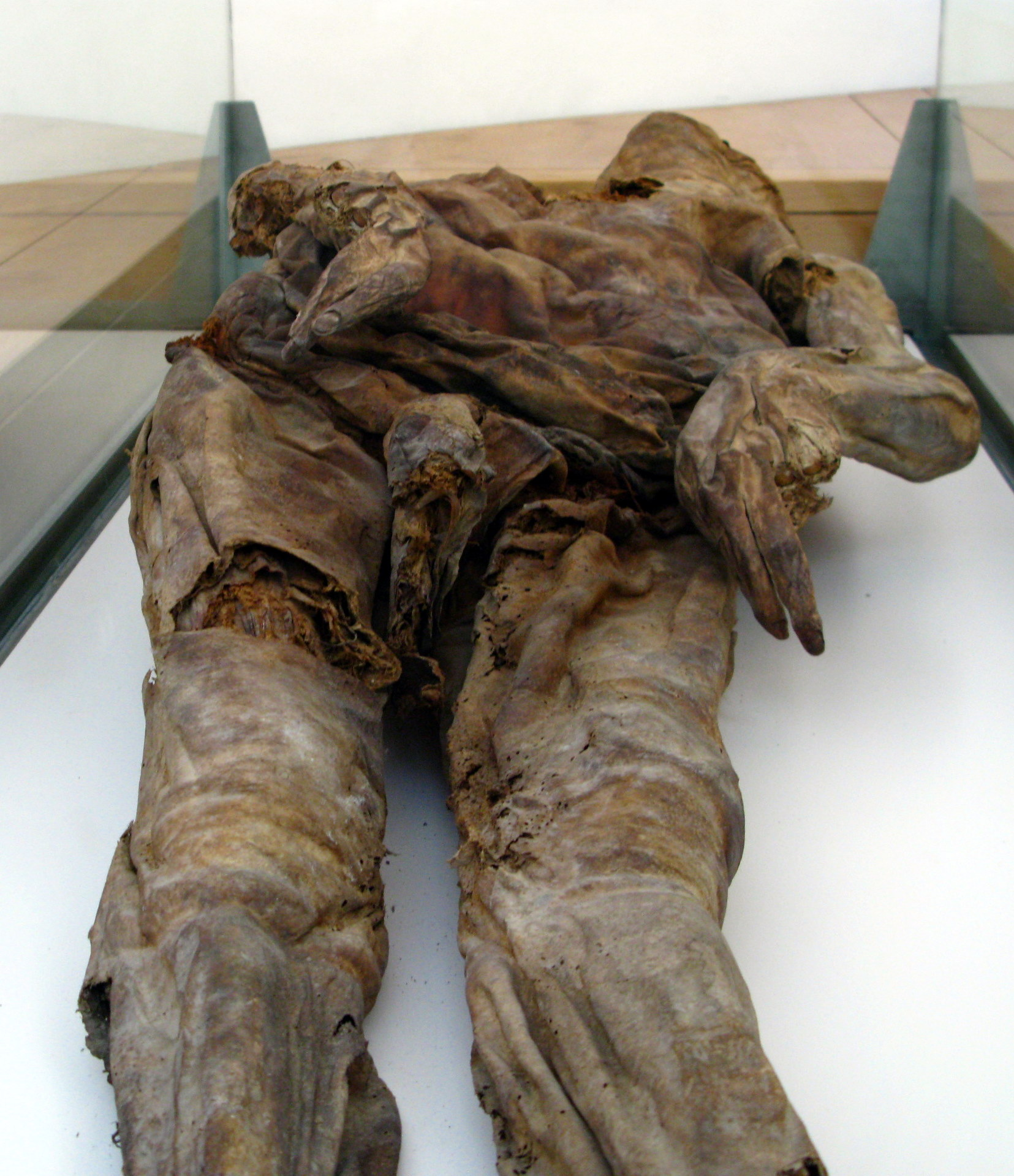 Mummy in the roman cemetery chapel nearby cathedral Sant'Andrea Apostolo in Venzone / Tagliamento valley / Friuli-Venezia Giulia / Italy / EU.